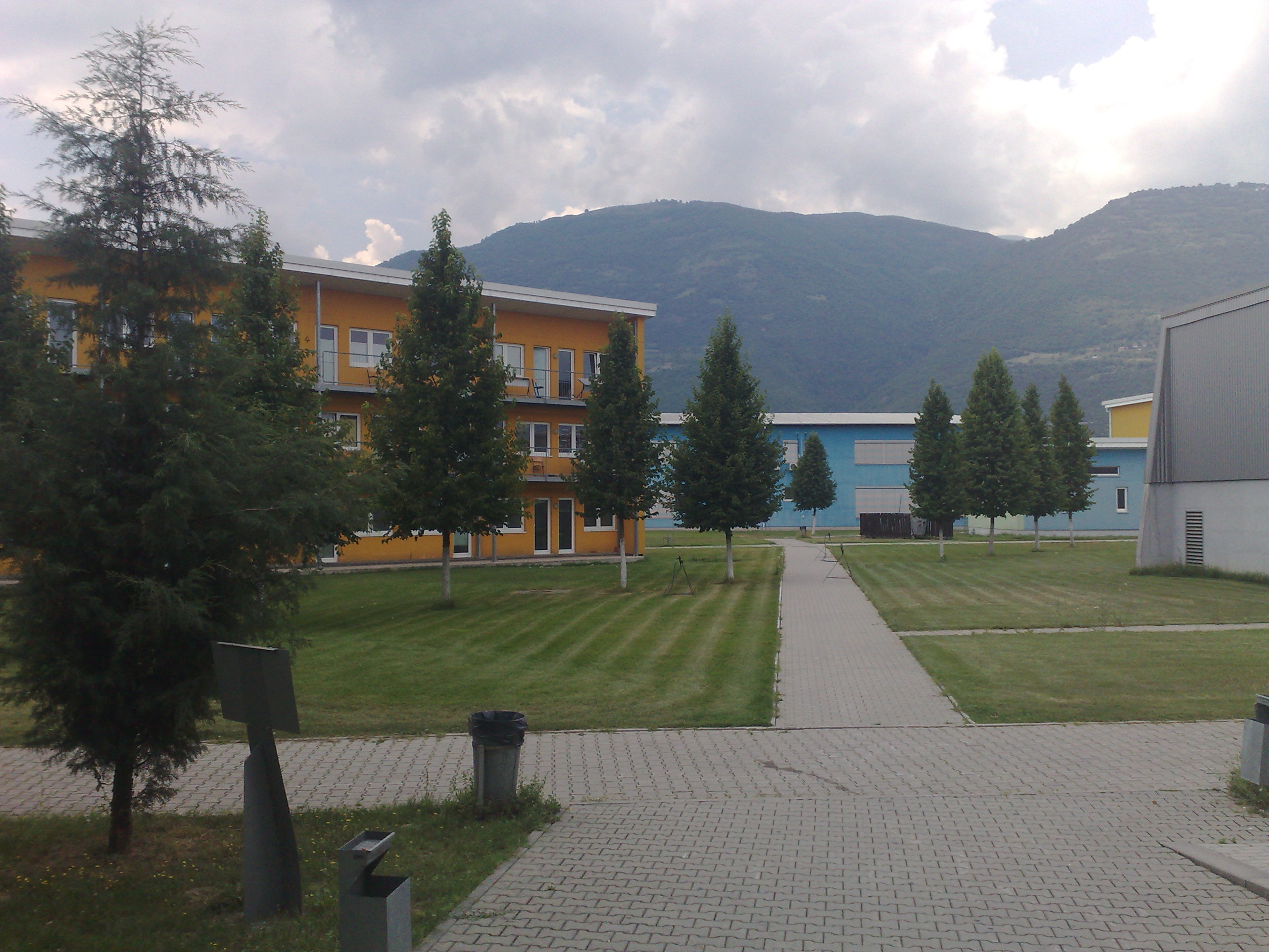 South East European University (SEE University) in Tetovo, Macedonia